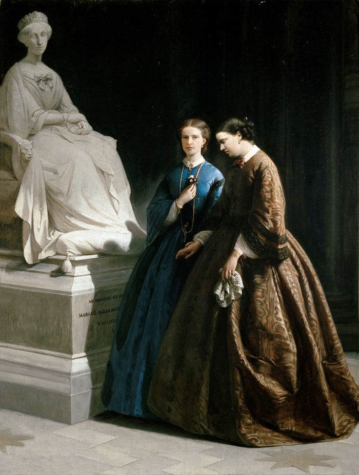 Princess Maria Pia of Savoy (later Queen of Portugal) and her elder sister, Princess Clotilde of Savoy visiting the tomb of their mother, Queen Adelaide of Sardinia.